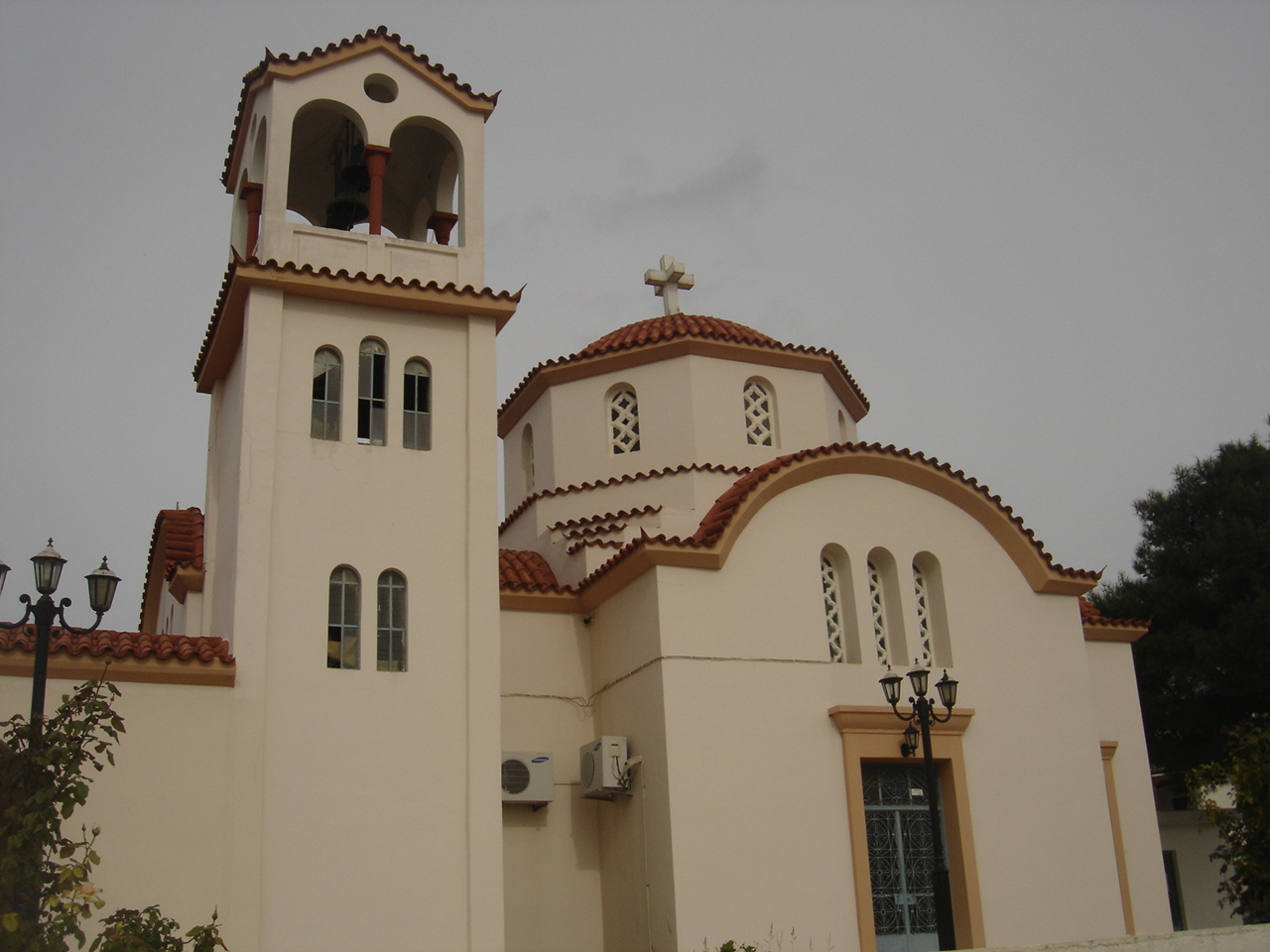 The Church of Ipapanti in Avli, Heraklion.